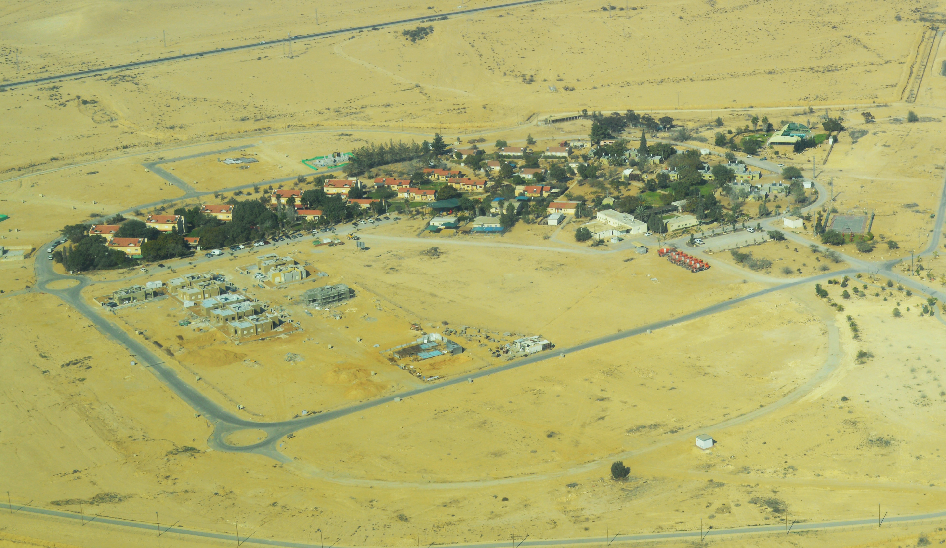 Tlalim Aerial View